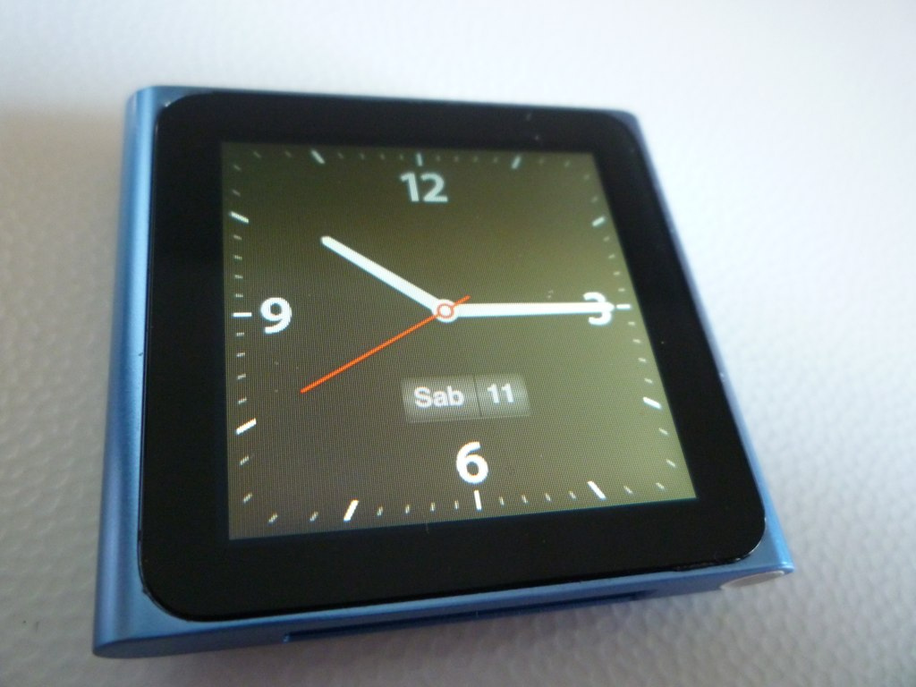 iPod Nano 6G Blue in Clock Mode